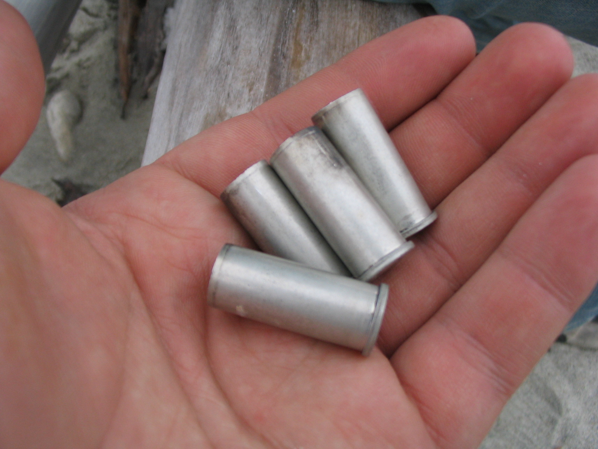 .44 Special's case made from aluminum alloy. Specially use for Charter Arms Bulldog.